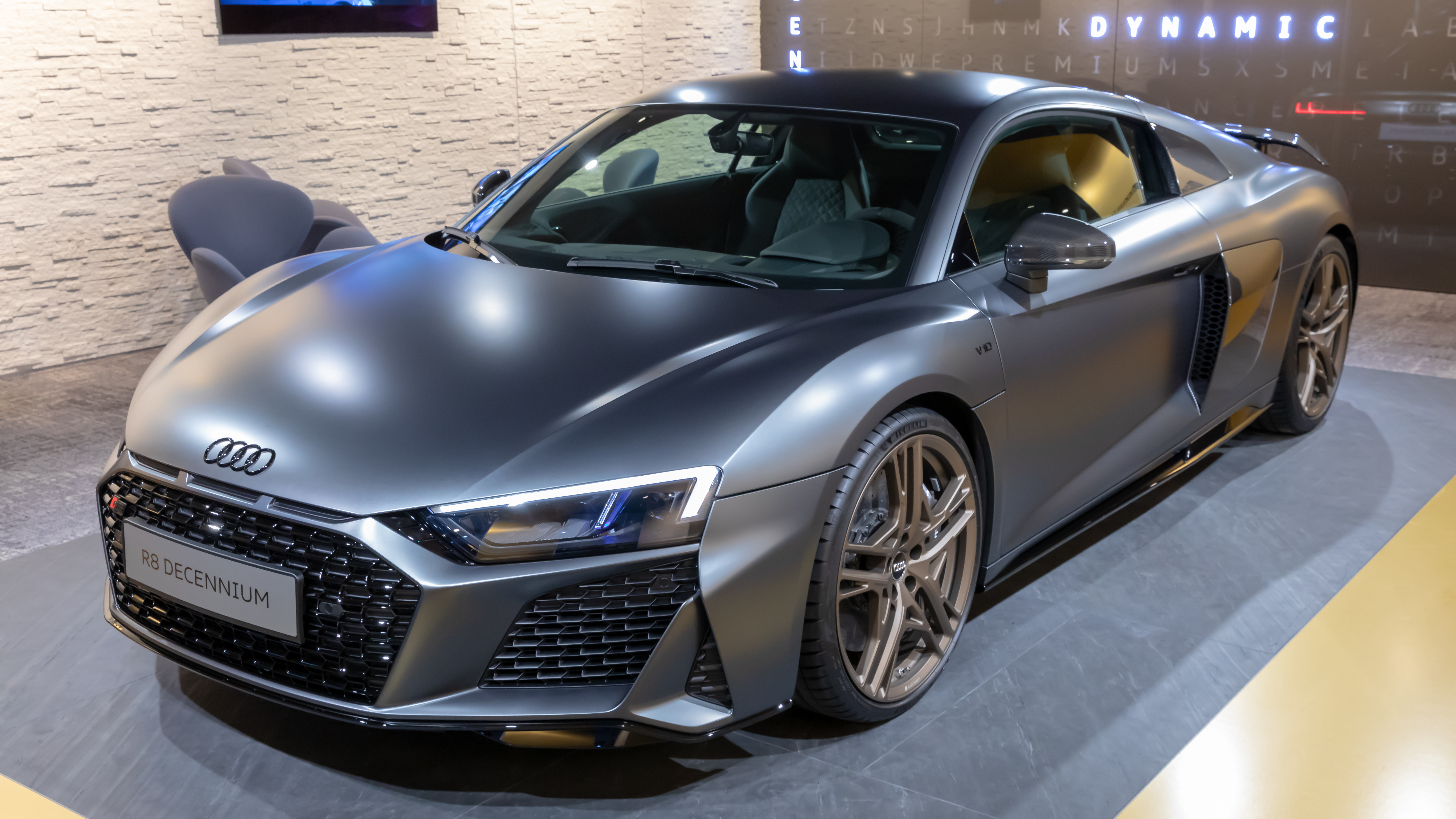 Audi R8 at Geneva International Motor Show 2019, Le Grand-Saconnex